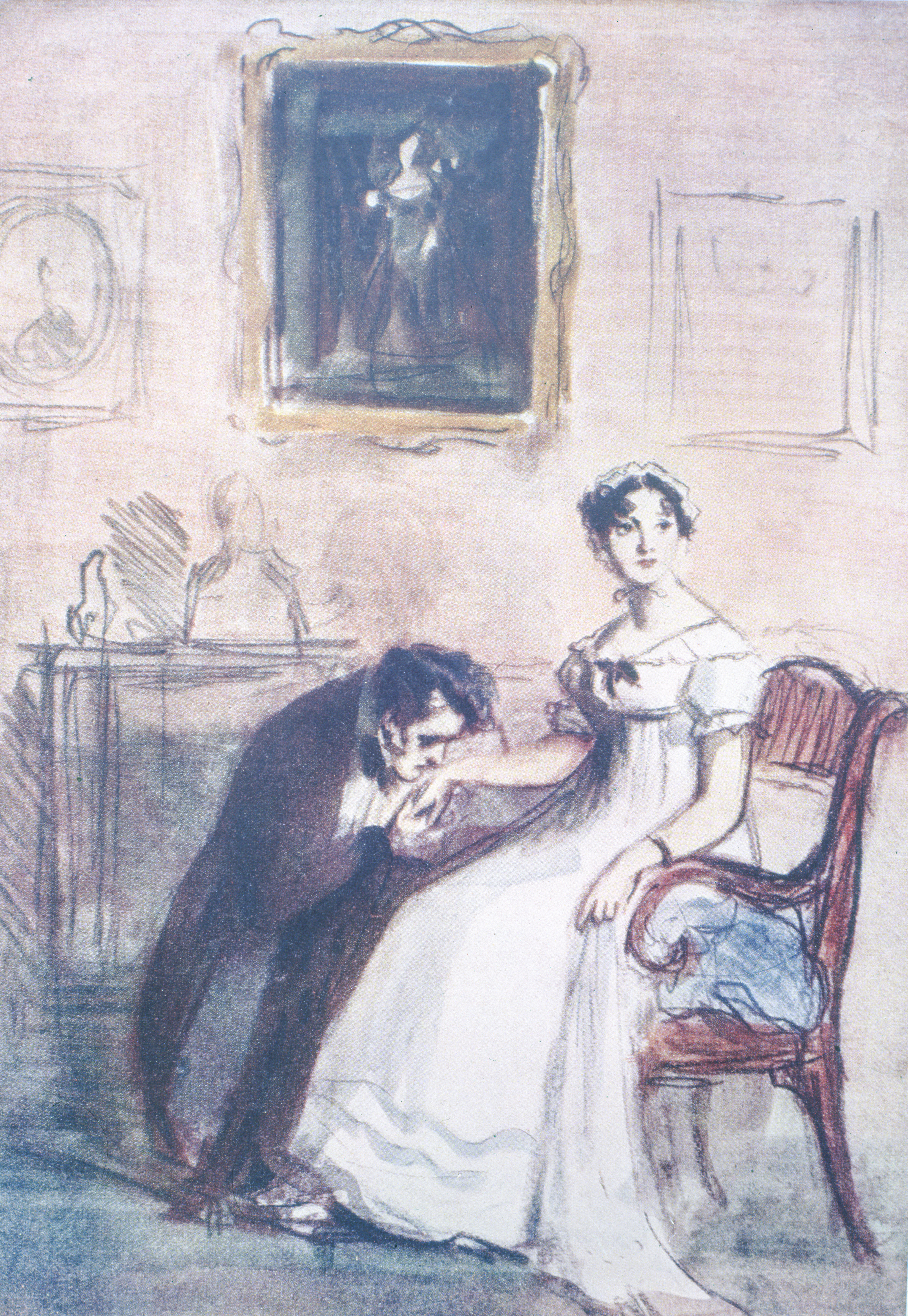 Illustration by Konstantin Ivanovich Rudakov for Eugene Onegin by Alexander Pushkin.